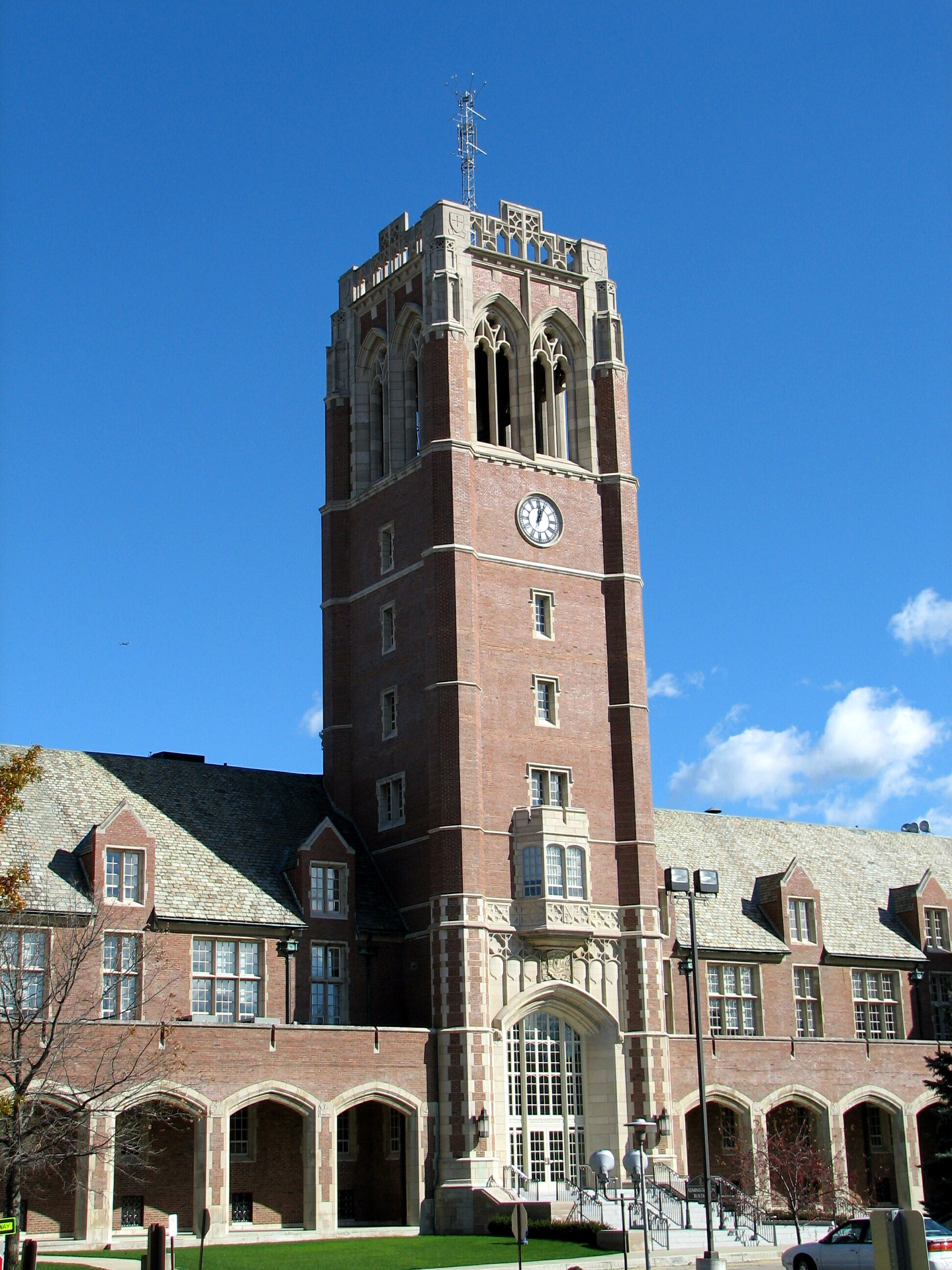 The tower of the administration building at John Carroll University, June 2007